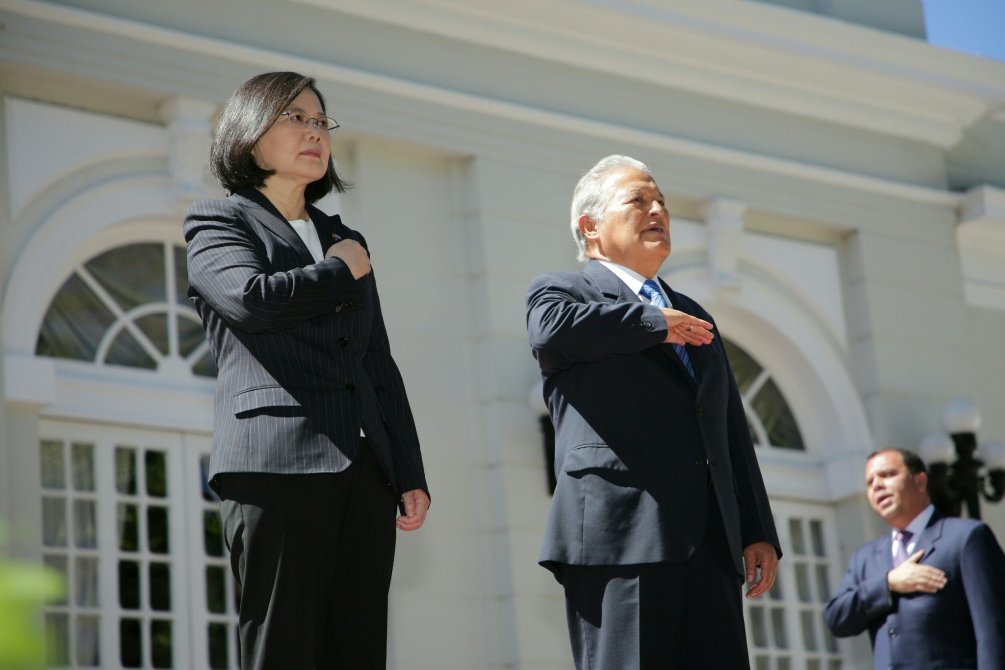 授權方式及範圍：中華民國總統府│政府網站資料開放宣告 Authorization Method & Scope: Office of the President, Republic of China (Taiwan) | Government Website Open Information Announcement